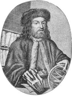 Tobias Cohn, from the frontpiece to his book Ma'aseh Toviyyah. Image from the 1901-1906 Jewish Encyclopedia, now in the public domain.